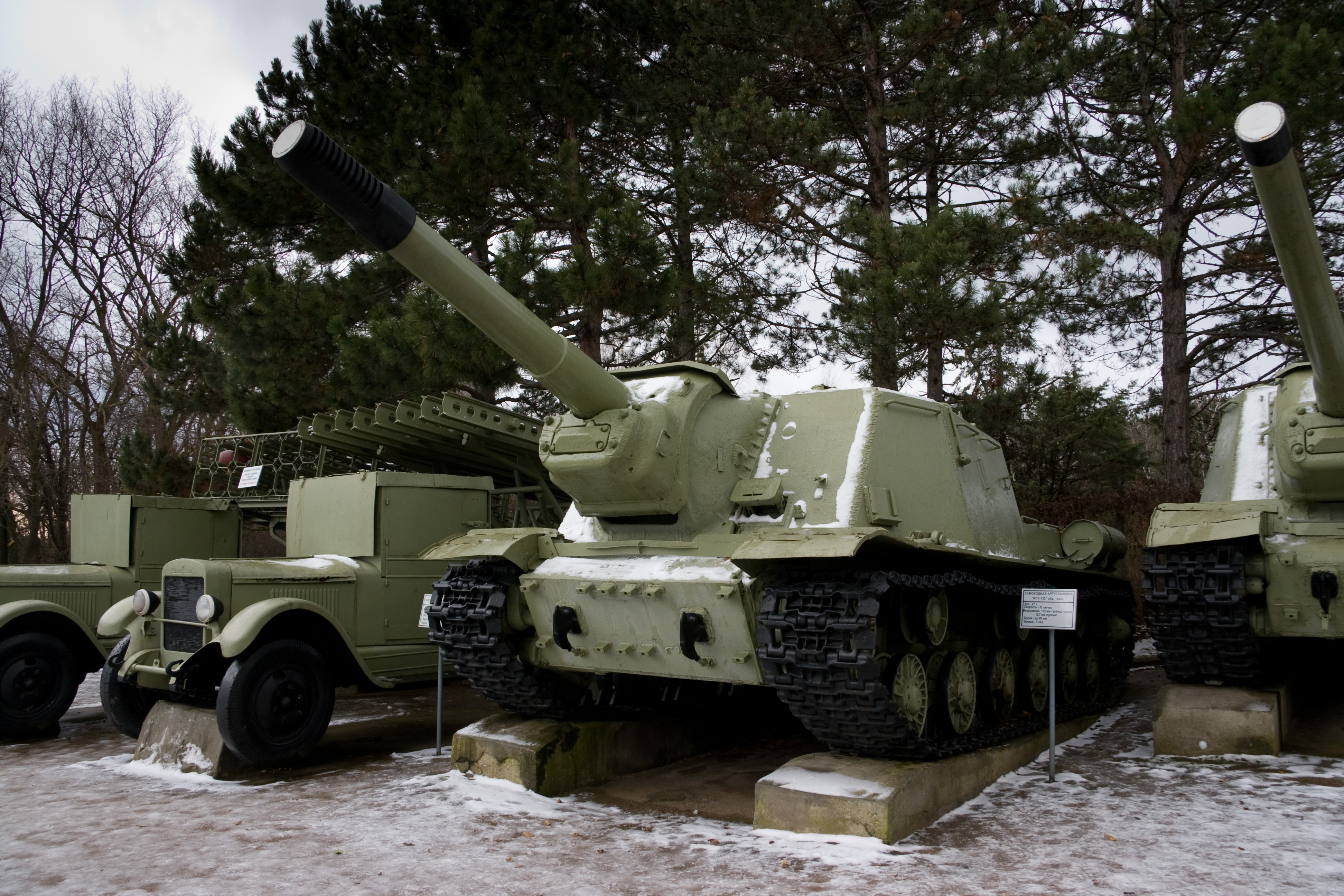 ISU-152 (1943) at Sapun-Gora